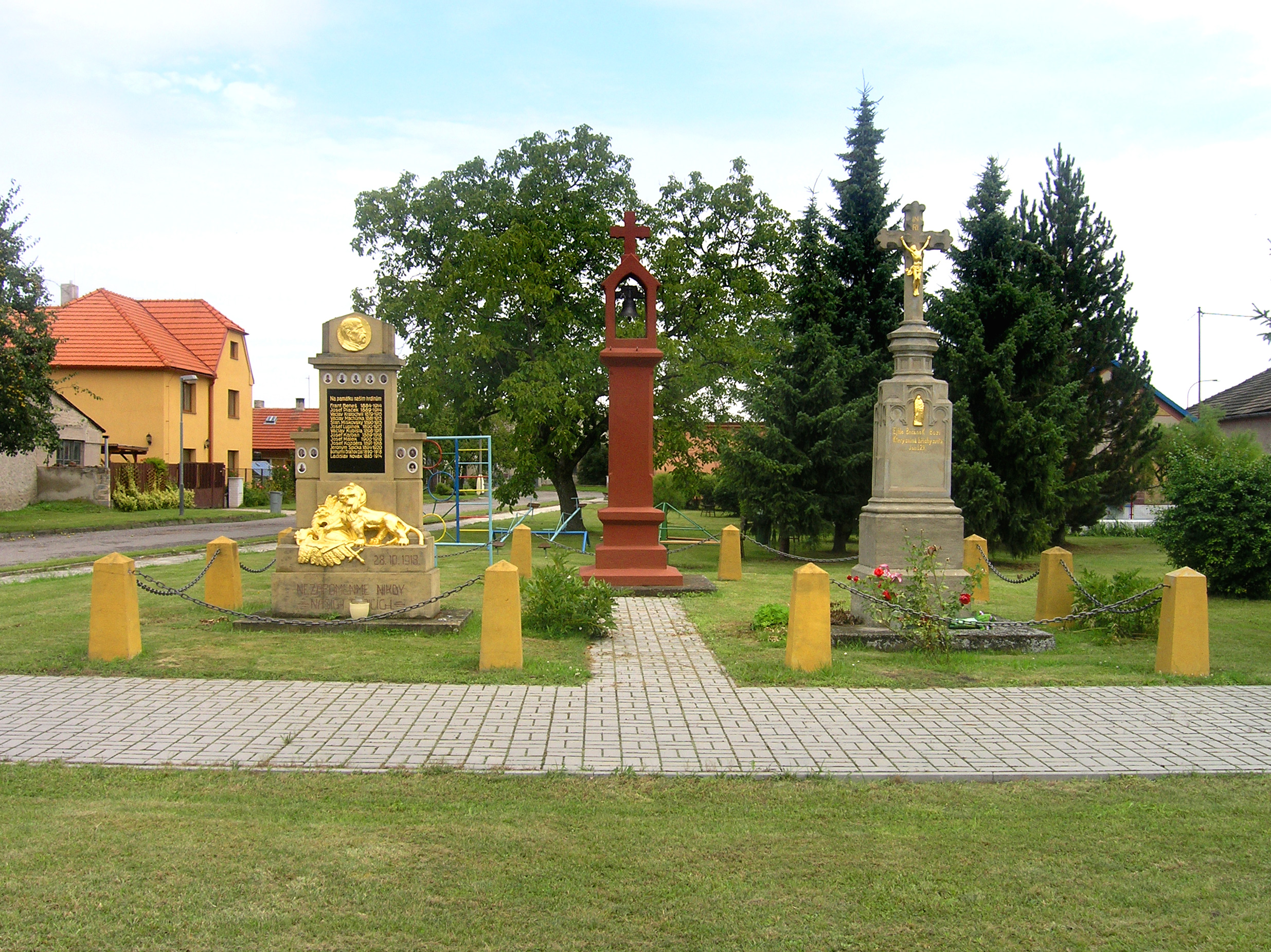 Common at Jestřabí Lhota, Czech Republic